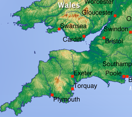 Bristol on a topographic map